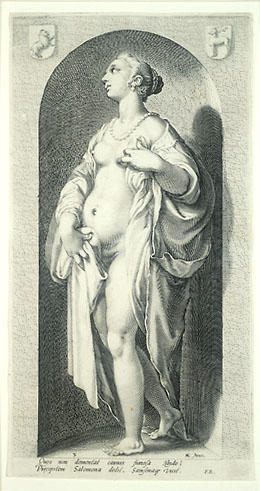 Lust, of the Seven Deadly Sins. By Jacob Matham.